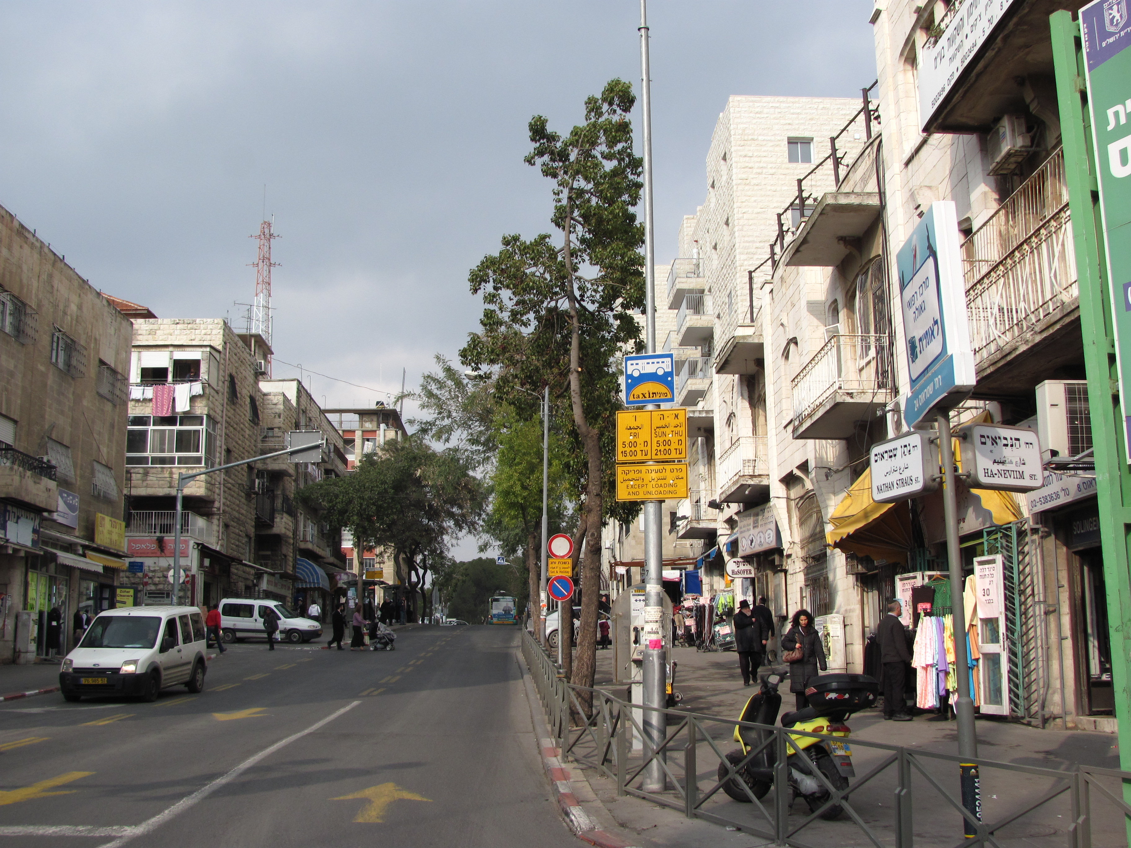 Looking north on Straus Street from the corner of Street of the Prophets, Jerusalem. The Histadrut building is visible behind the tree in the background, on the left side of the street.